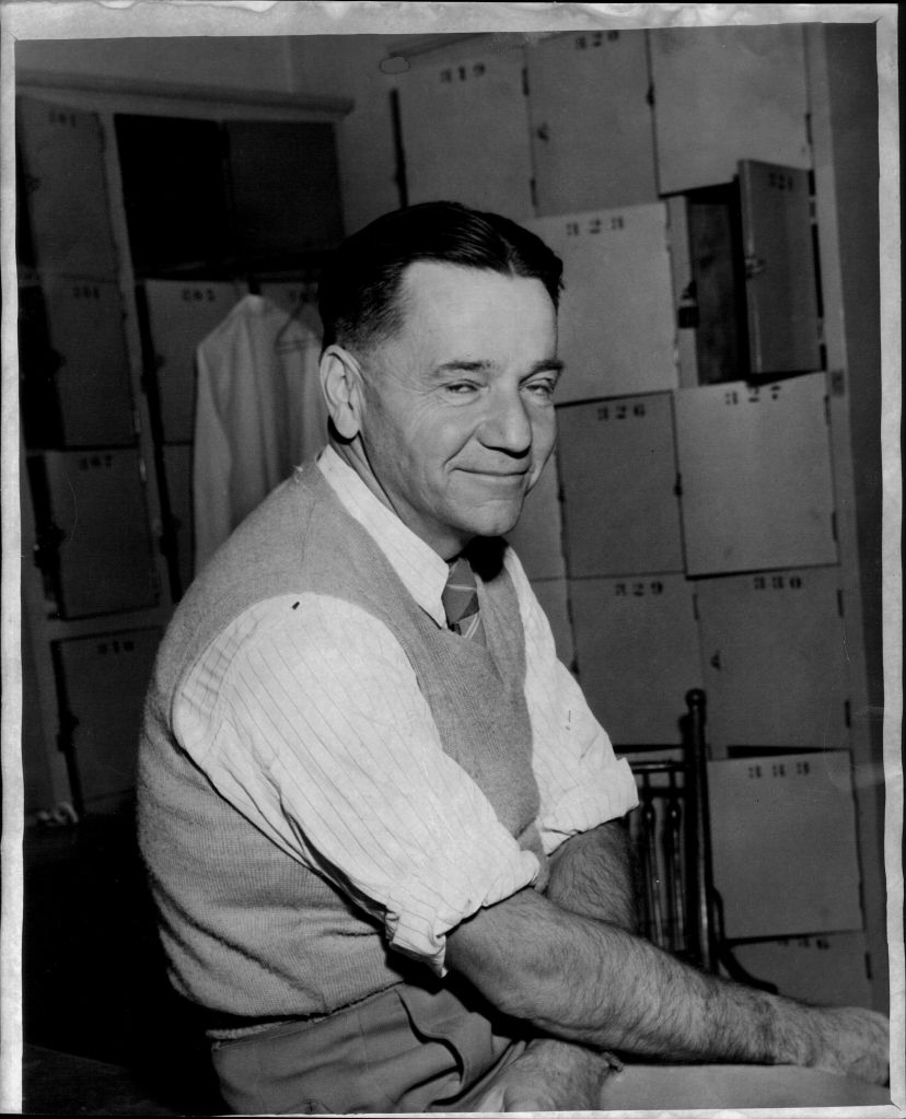 Dr. C. Leo Hitchcock, of the University's botany department, has been in charge of the field trips since 1938.With pick in one hand and notebook in the other, 13 University of Washington botany students combed the hills of Eastern Washington the past summer, collecting specimens for the campus herbarium. Traveling eastward in two trucks, they rolled on over into Idaho and Montana, gathering more material while they took their summer school in the open. By early August they were on their way back via the Canadian Rockies, making a loop of 2,200 miles.